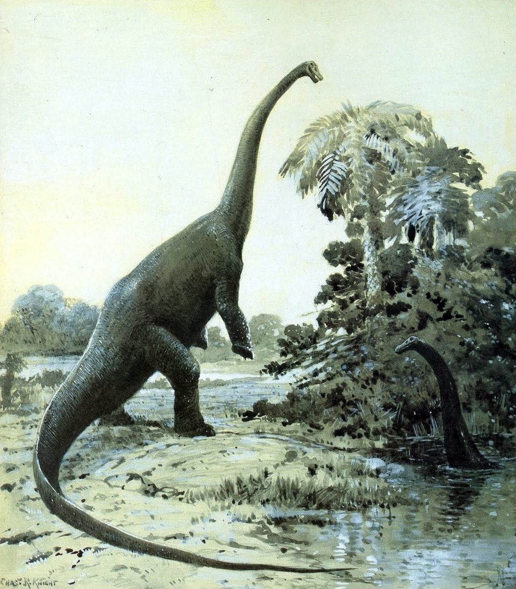 Diplodocus rearing in a painting by Charles Knight